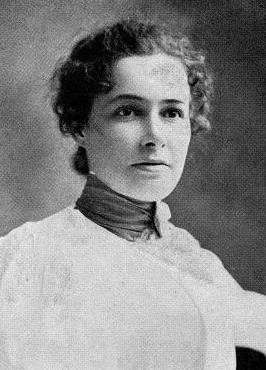 A young white woman wearing a high-collared dress or blouse; her dark hair is dressed back, with some curls around her temples